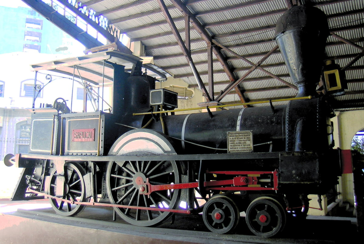 First Steam Train of Paraguay